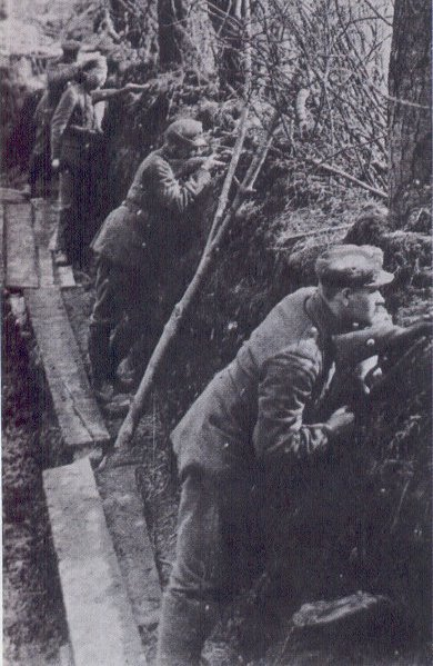 Polish Legionists at Kostiuchnowka (1916)